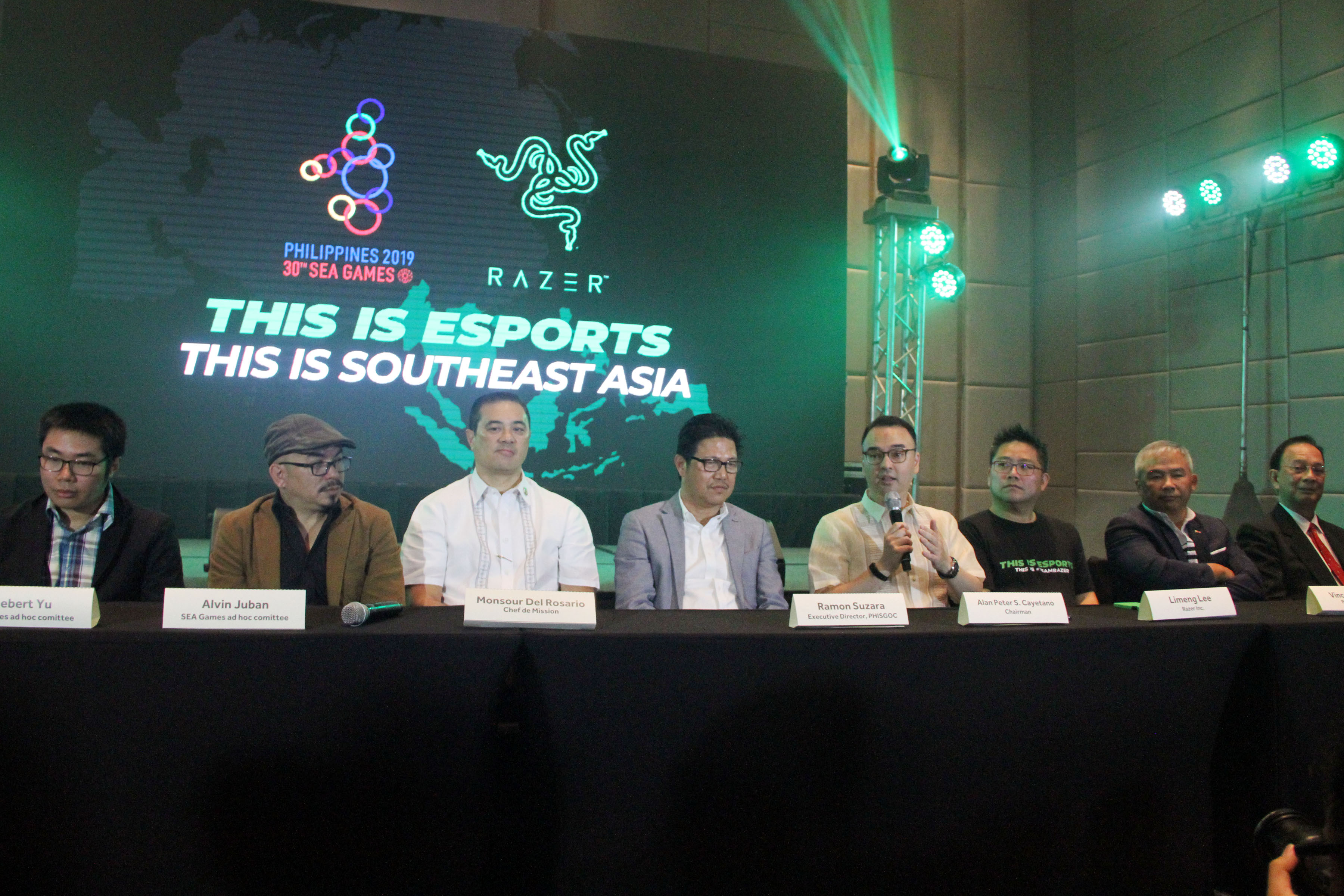 Philippines SEA Games Organizing Committee (Phisgoc) chairman Alan Peter Cayetano (fifth from left) talks about the inclusion of e-sports in the 2019 SEA Games calendar, during a press conference at the Marriott Hotel in Pasay City on Wednesday (Nov. 28, 2018). From left are e-sports officials Joebert Yu and Alvin Juban; Team Philippines chef de mission Monsour Del Rosario; Phisgoc executive director Ramon Suzara; Cayetano; Razer chief strategy officer Limeng Lee; TV5 president Vincent Reyes; and SEA Games Federation Executive Committee chairman Celso Dayrit.